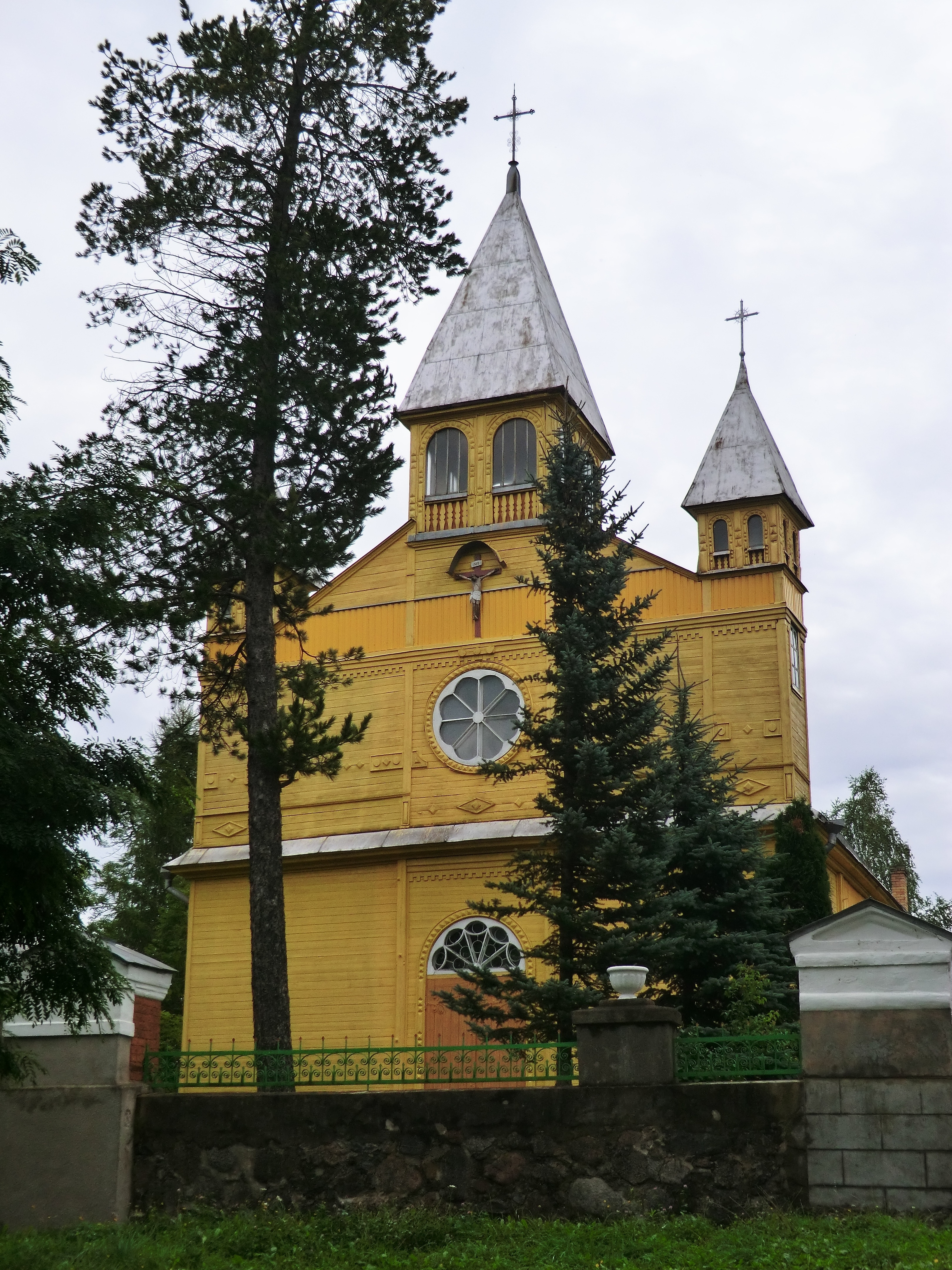 Laucesa Roman Catholic church